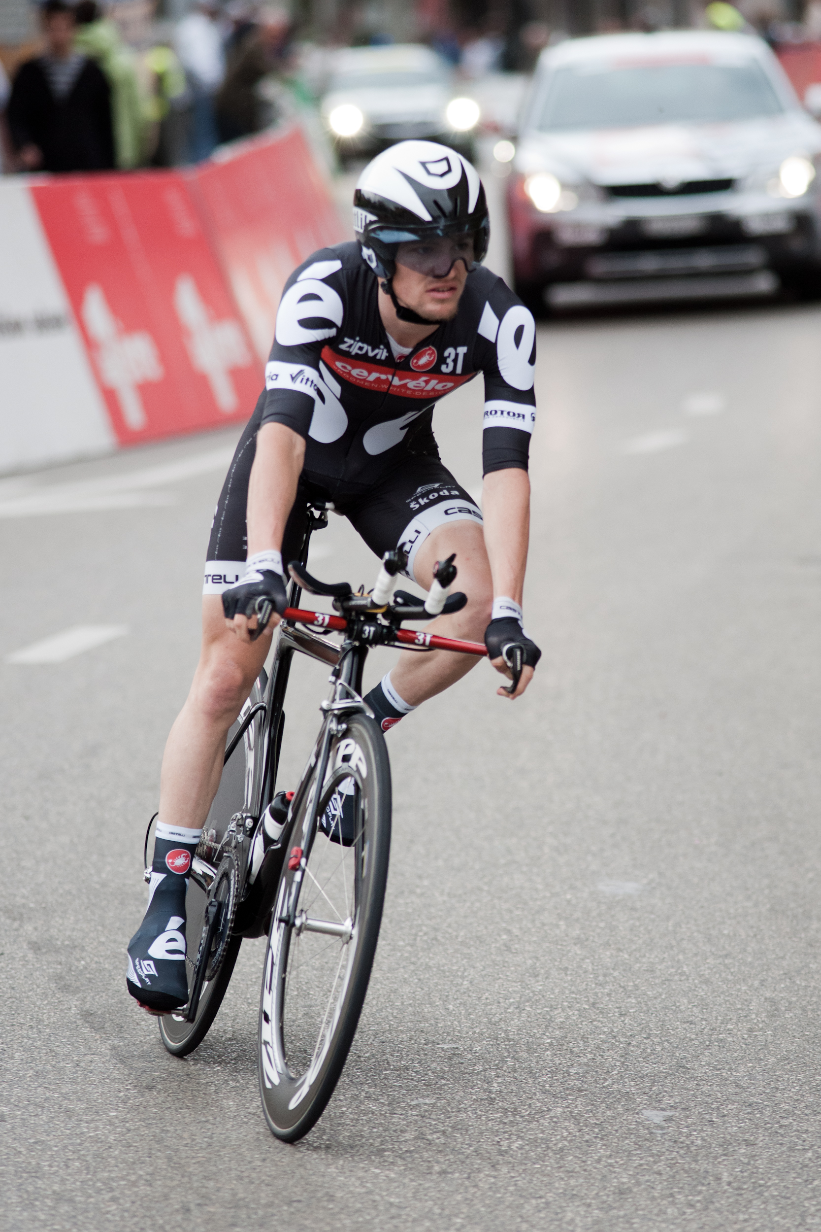 Oscar Pujol during the 3rd stage of the Tour de Romandie 2010.